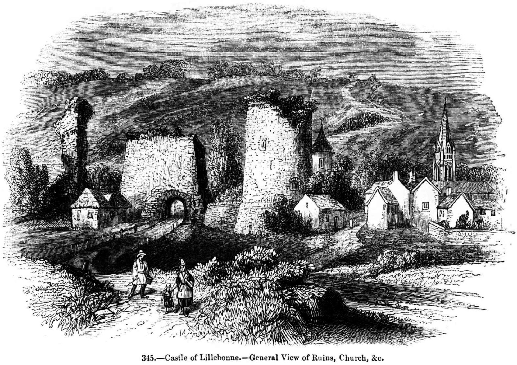 19th century engraving of castle of William of Normandy [William the Conqueror] in Lillebonne, Seine-Maritime, France.